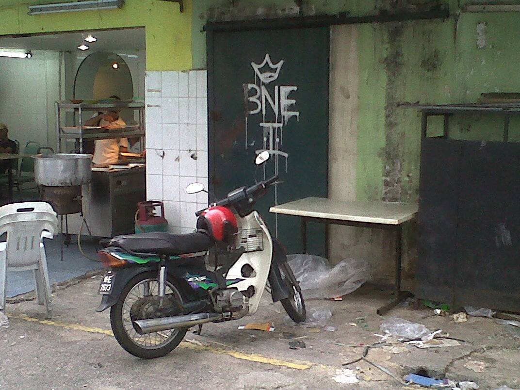 Picture of BNE tag near Kuala Lumpur's central market